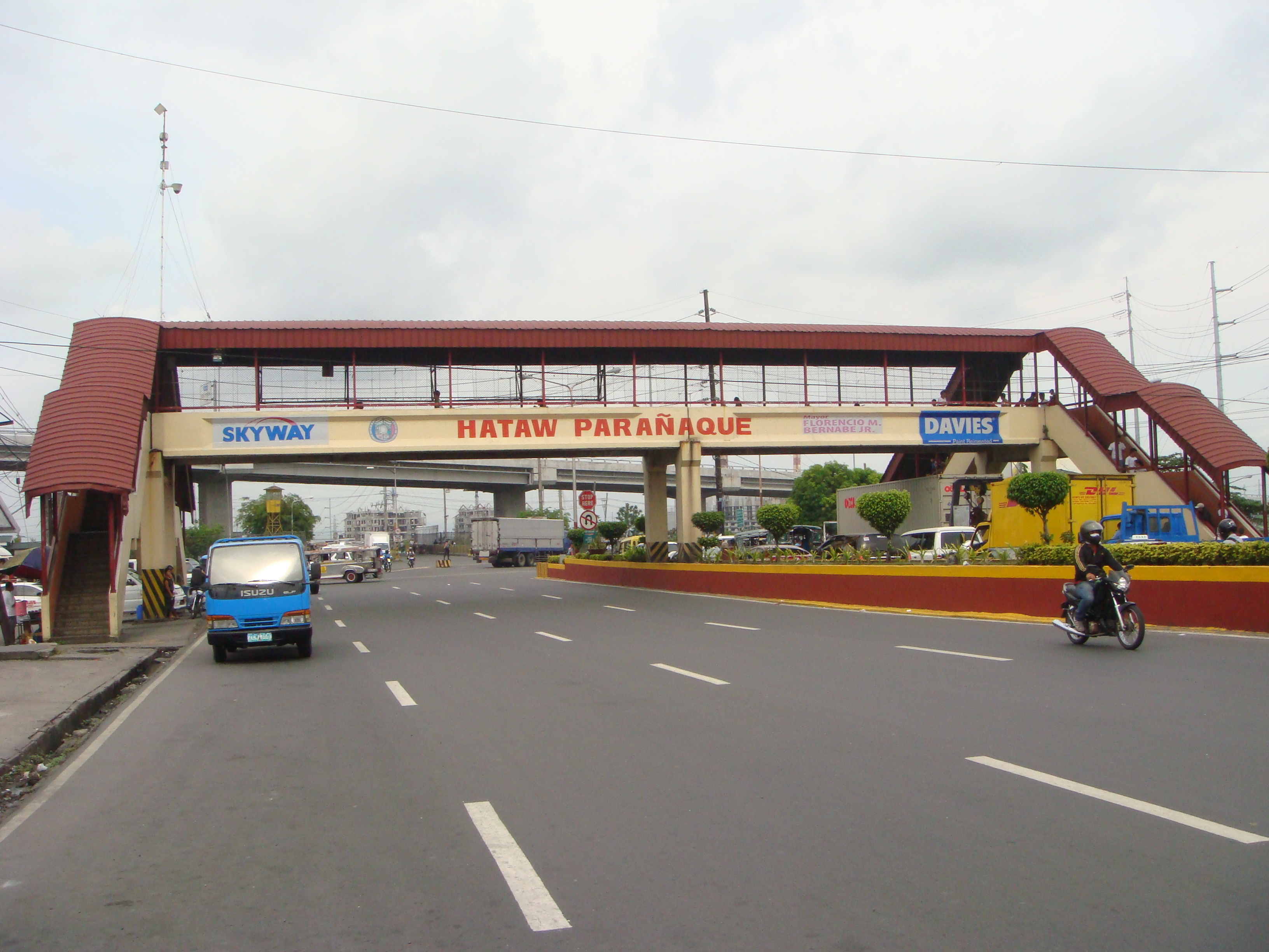 Paranaque City welcome marker